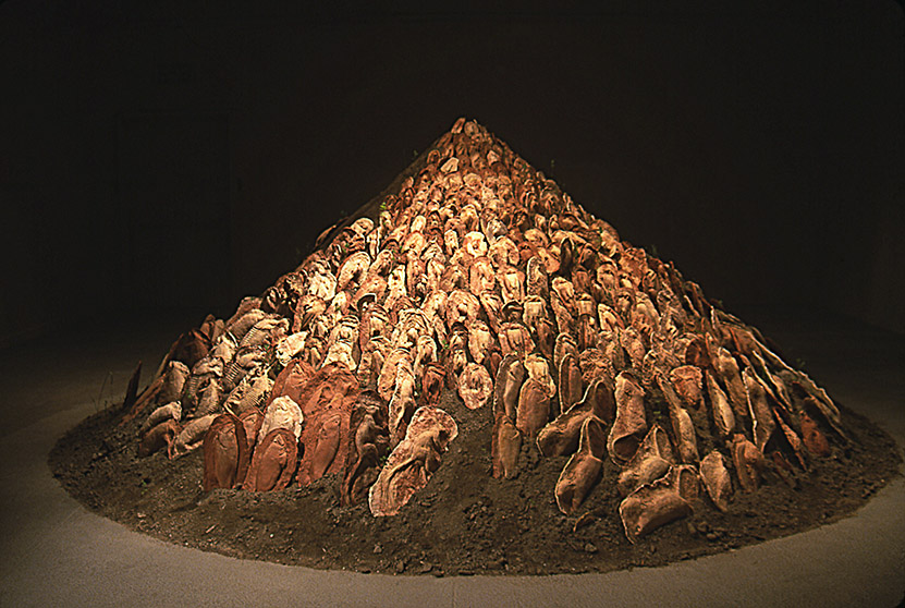 Rimer Cardillo (Uruguay) Cupí degli Uccelli, Venice Biennial, 2001. Cone of soil and terra cotta, 67 x 144 inches diameter